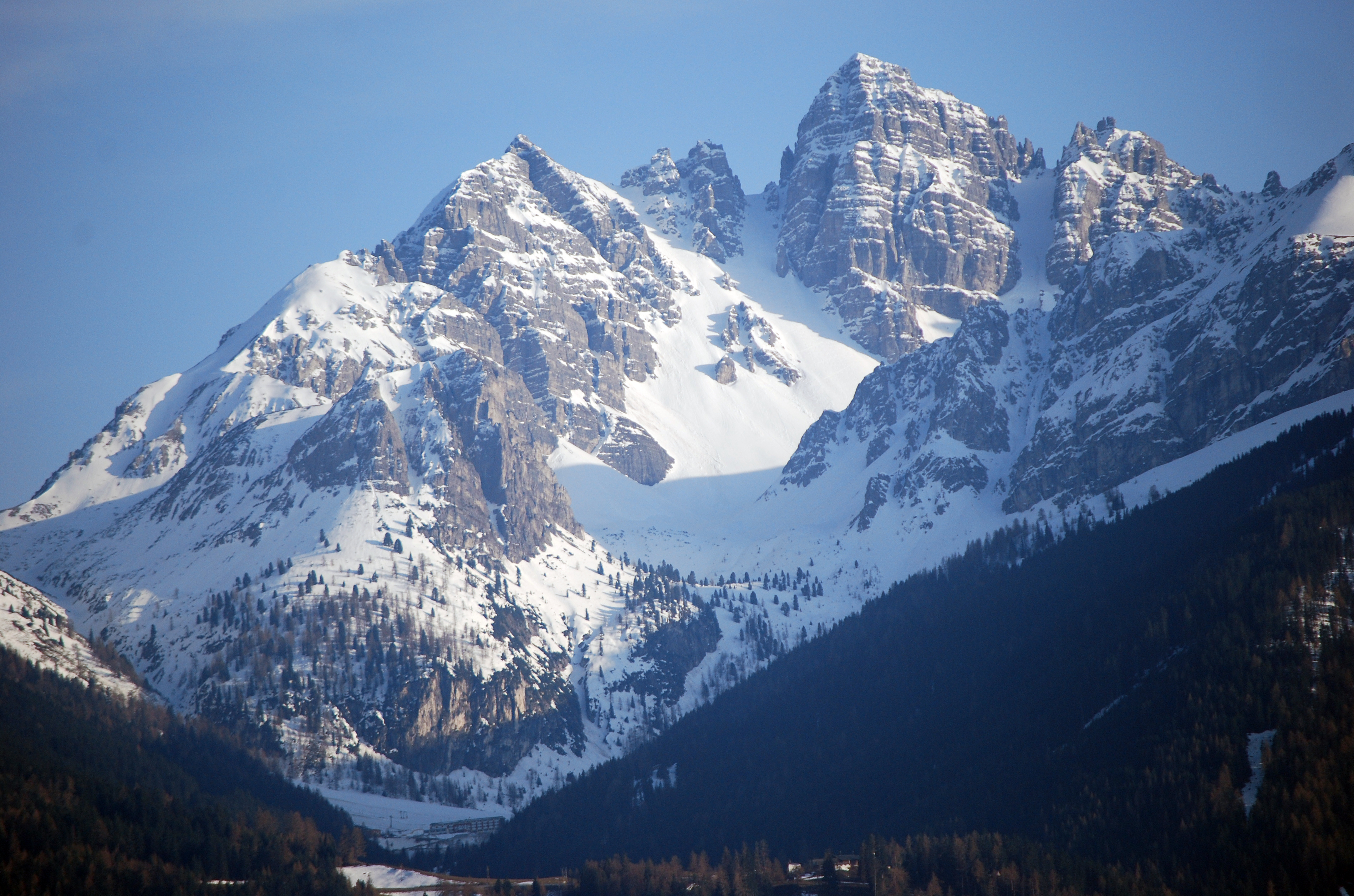 View to Axamer Lizum from north. Mountains Ampferstein and Marchreisenspitze (massif Kalkkögel)